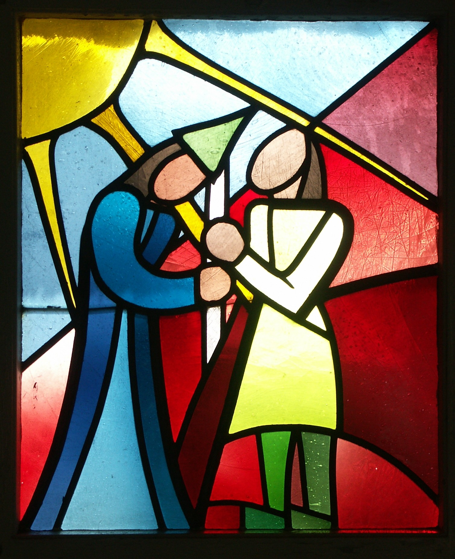 Baltrum catholic church: window created by Margarete Franke